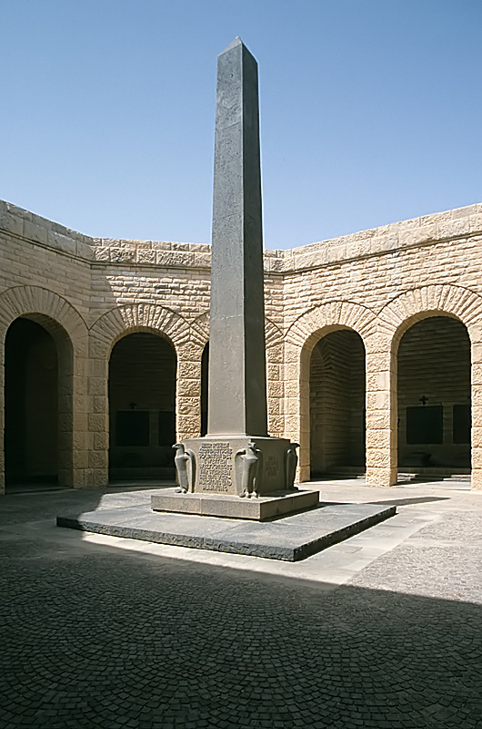 German War Cemetery, el-Alamein, Egypt